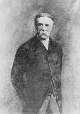 Posthumous Portrait of Fairman Rogers (1903) by Joseph DeCamp.Fairman Rogers (1833-1900); One of four professors who founded Penn's Department of Mines, Arts and Manufacturers, 1855. Civil engineer and University Trustee. Founding member of Zeta Psi Fraternity. Director of the Pennsylvania Academy of the Fine Arts. Author of A Manual of Coaching (1899).